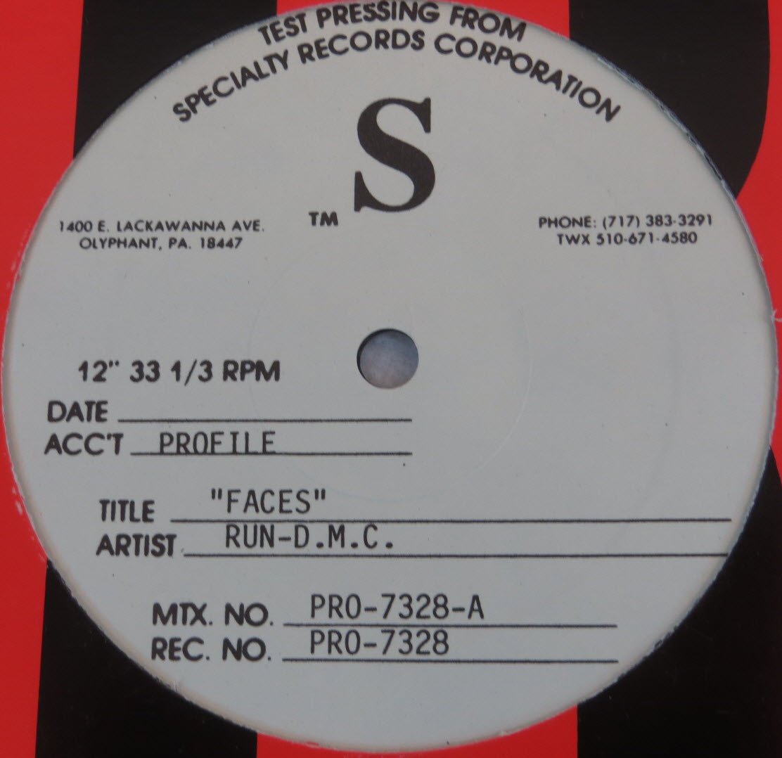 Side A of the Run–D.M.C. test pressing 12-inch single "Faces / Back from Hell". This record was released in 1991 on Profile Records.